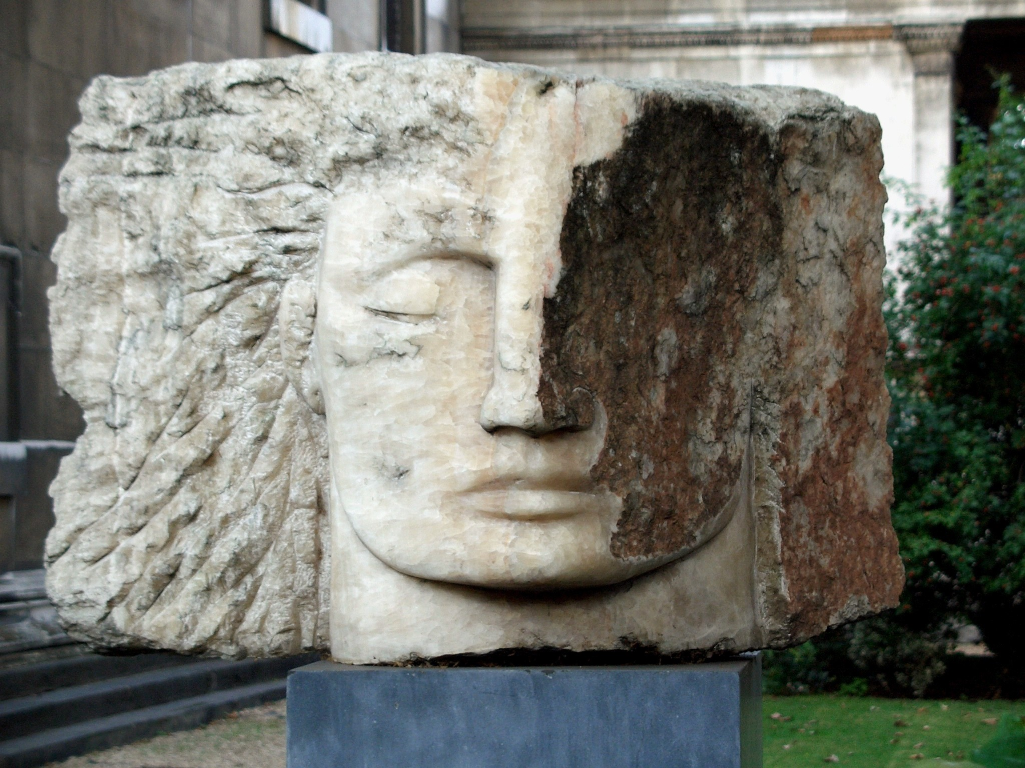 Archangel Michael by Emily Young, 2004. Onyx. This sculpture is in the grounds of St Pancras New Church Euston Road, and can by viewed from Upper Woburn Place. Plaque inscription: " In memory of the victims of the 7th July 2005 bombings and all victims of violence. 'I will lift up my eyes unto the hills' Psalm 121" (information is from St Pancras Church website